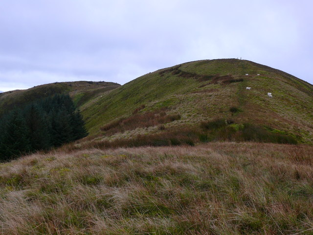 Mynydd Dolgoed Mynydd Dolgoed o'r ddwyrain / Mynydd Dolgoed from the east